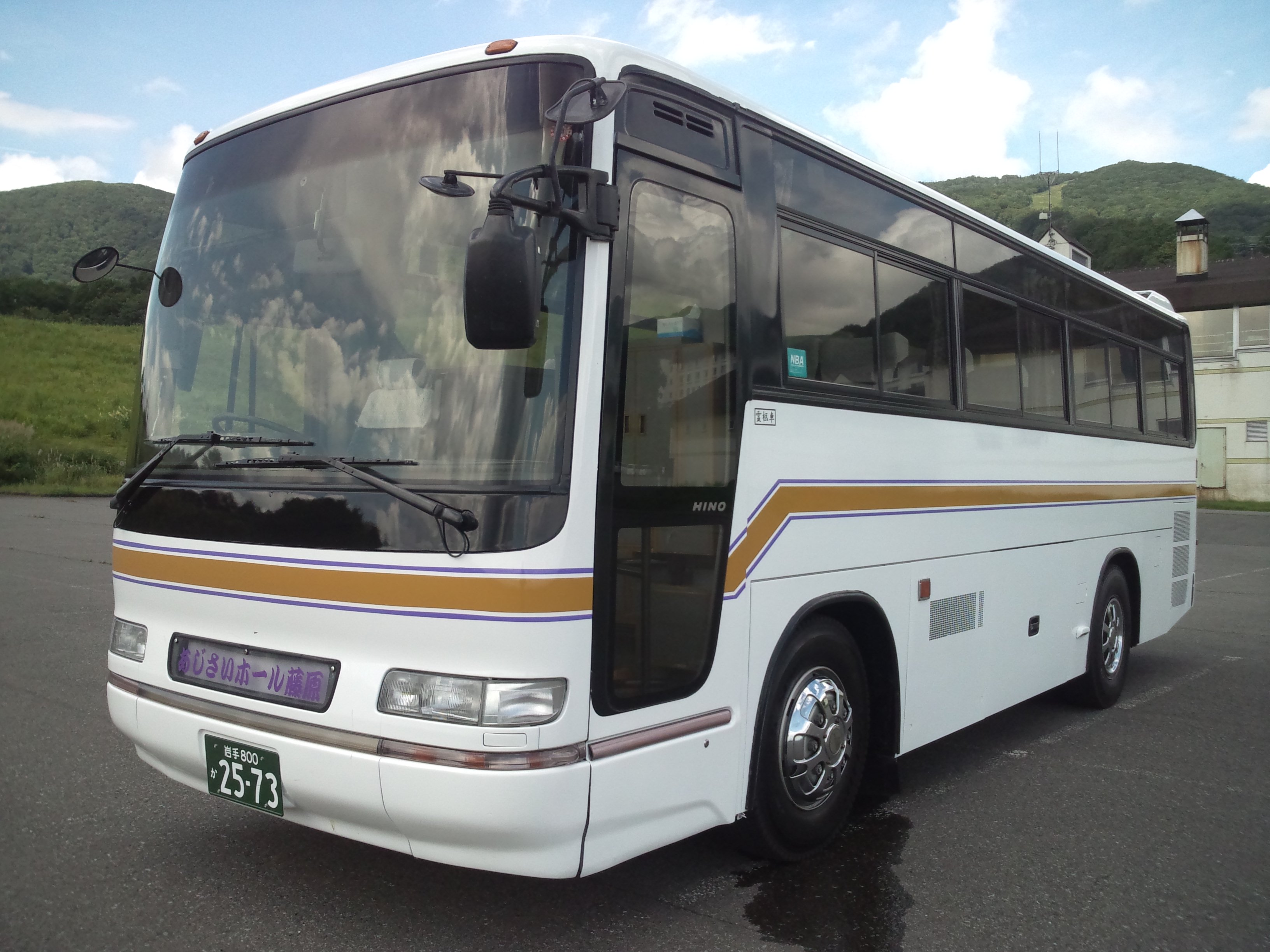 Middle sized bus-turned hearse in Iwate, Japan